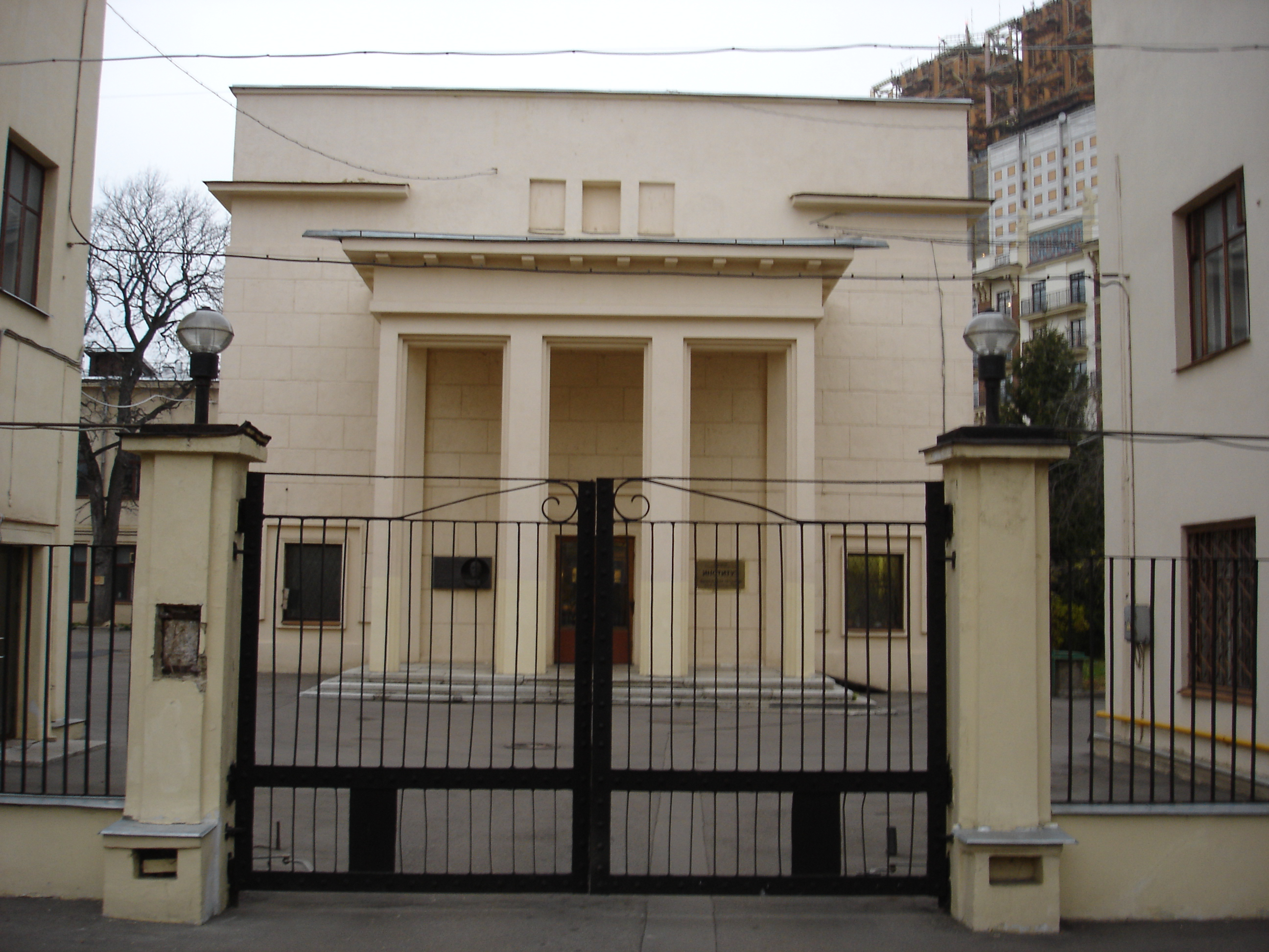 Landau Institute for Theoretical Physics, Moscow, Russia. Main entrance view